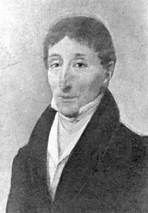 Portrait of Wojciech Żywny, [1829] Oil, [?], 29,5 x 22